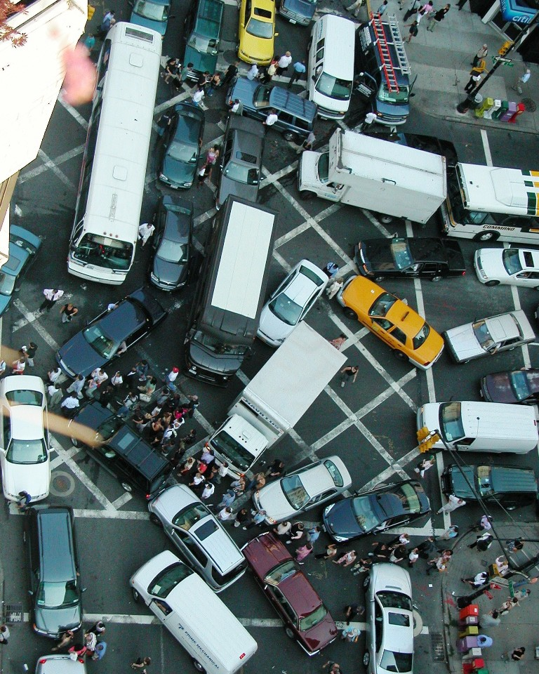 Gridlock resulting from vehicles and pedestrians "blocking the box" at the intersection of 1st Avenue and 57th Street in New York City.